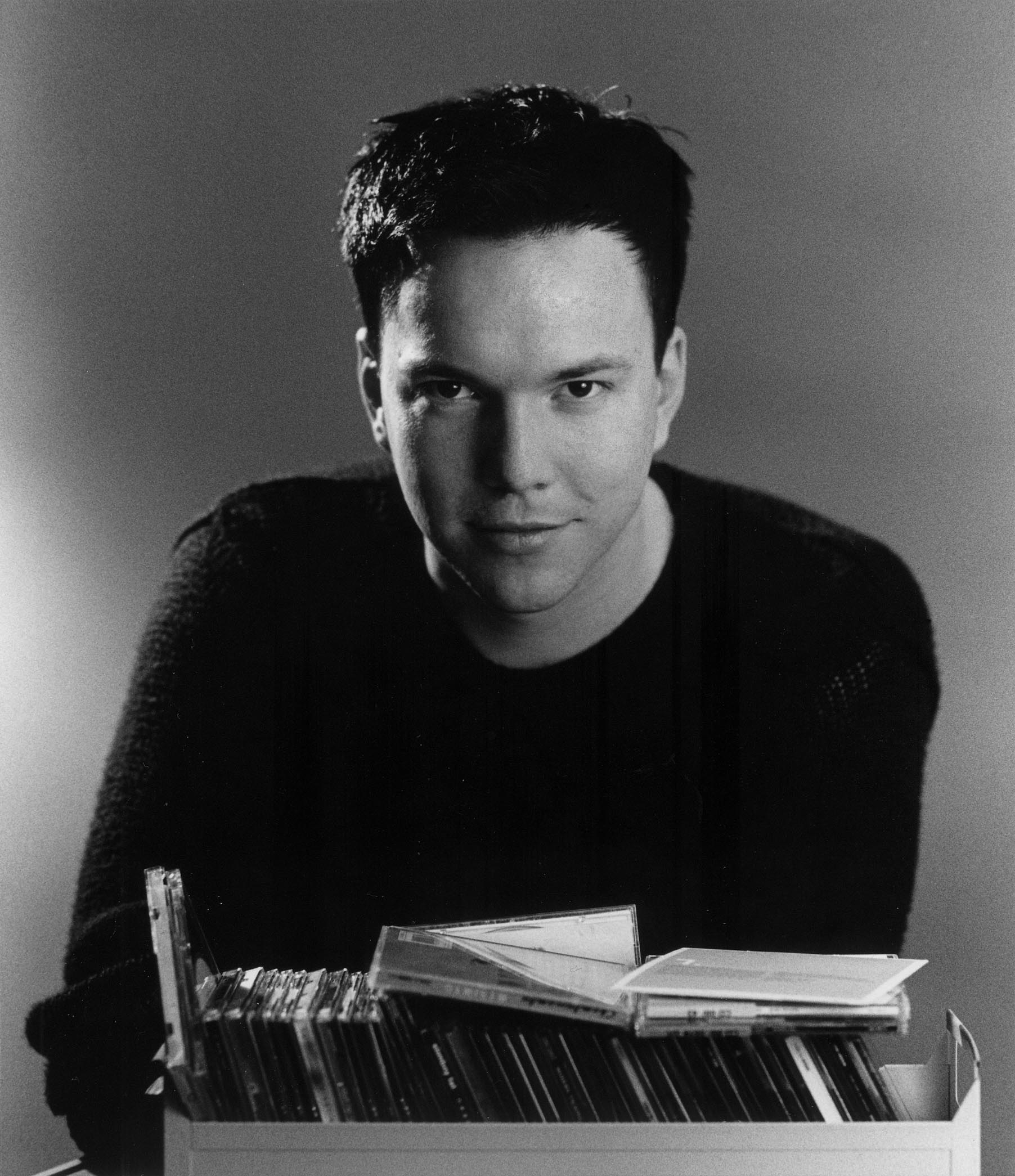 Sven Epiney Talkmaster by Monica Boirar aka Monica Beurer